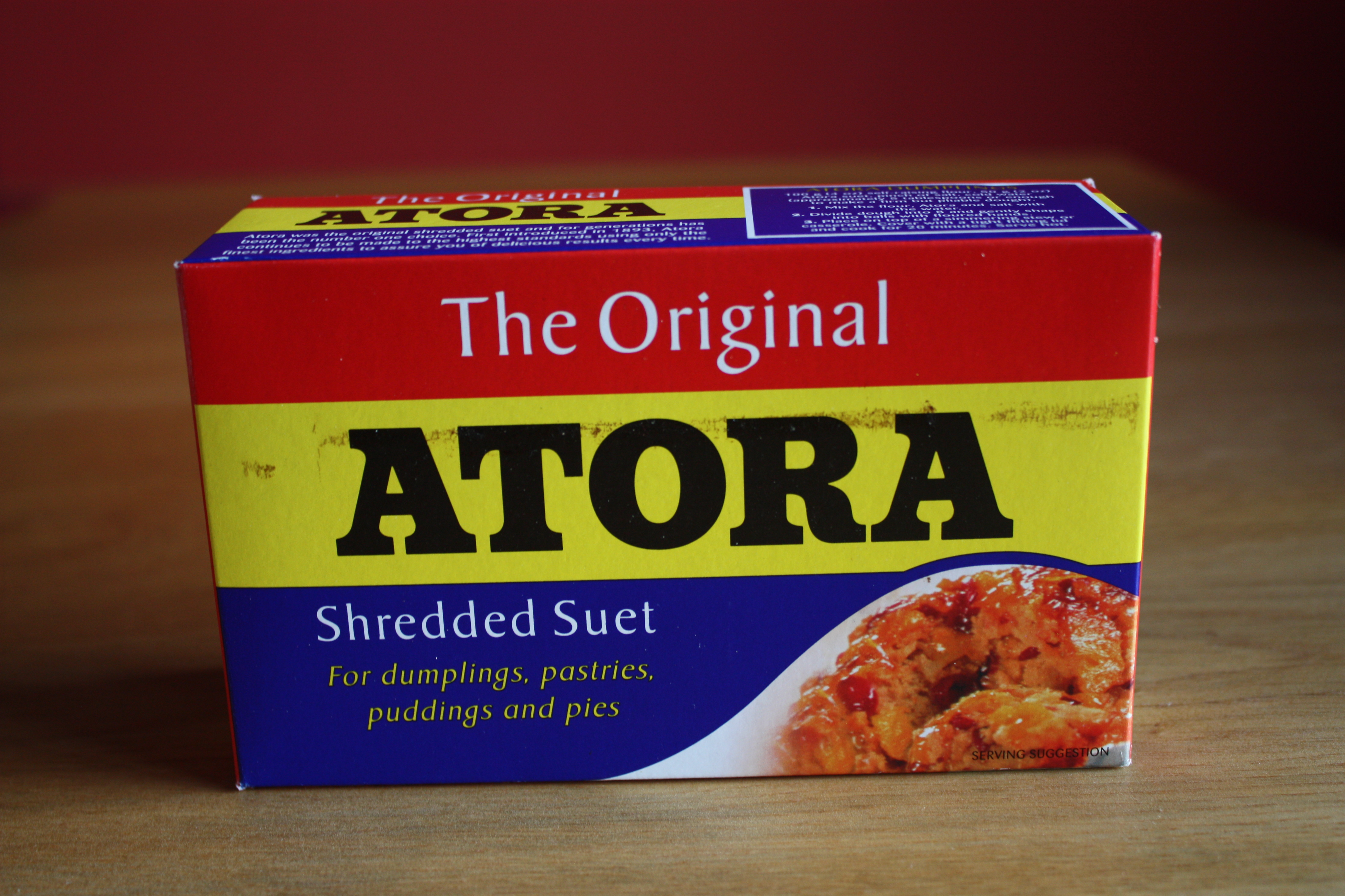 Atora suet, Downpatrick, County Down, Northern Ireland, September 2010